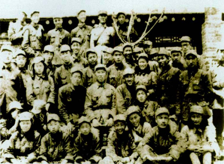 This is a photo of the Art Troupe of the 9th Column of the Fourth Field Army. The Photo was taken at 1947, according to the copyright law in China, it has been in public domain.